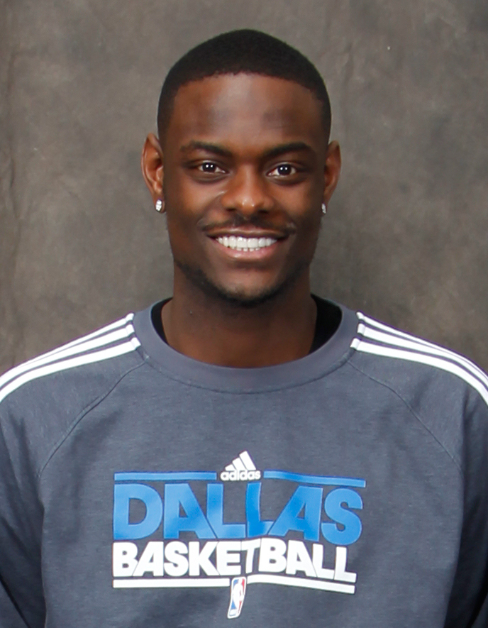 Anthony Morrow, March 2013.